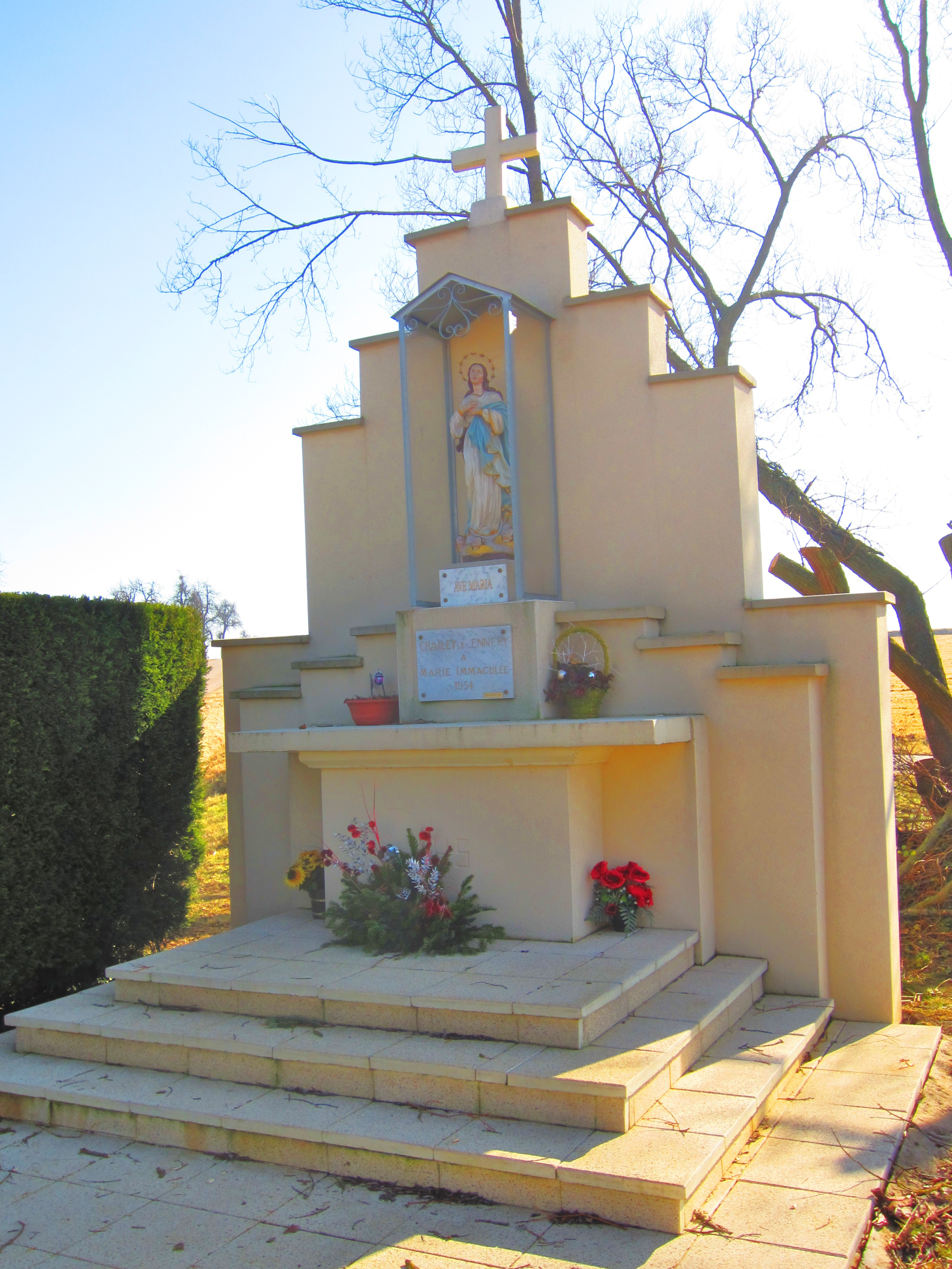 Chailly Ennery virgin statue